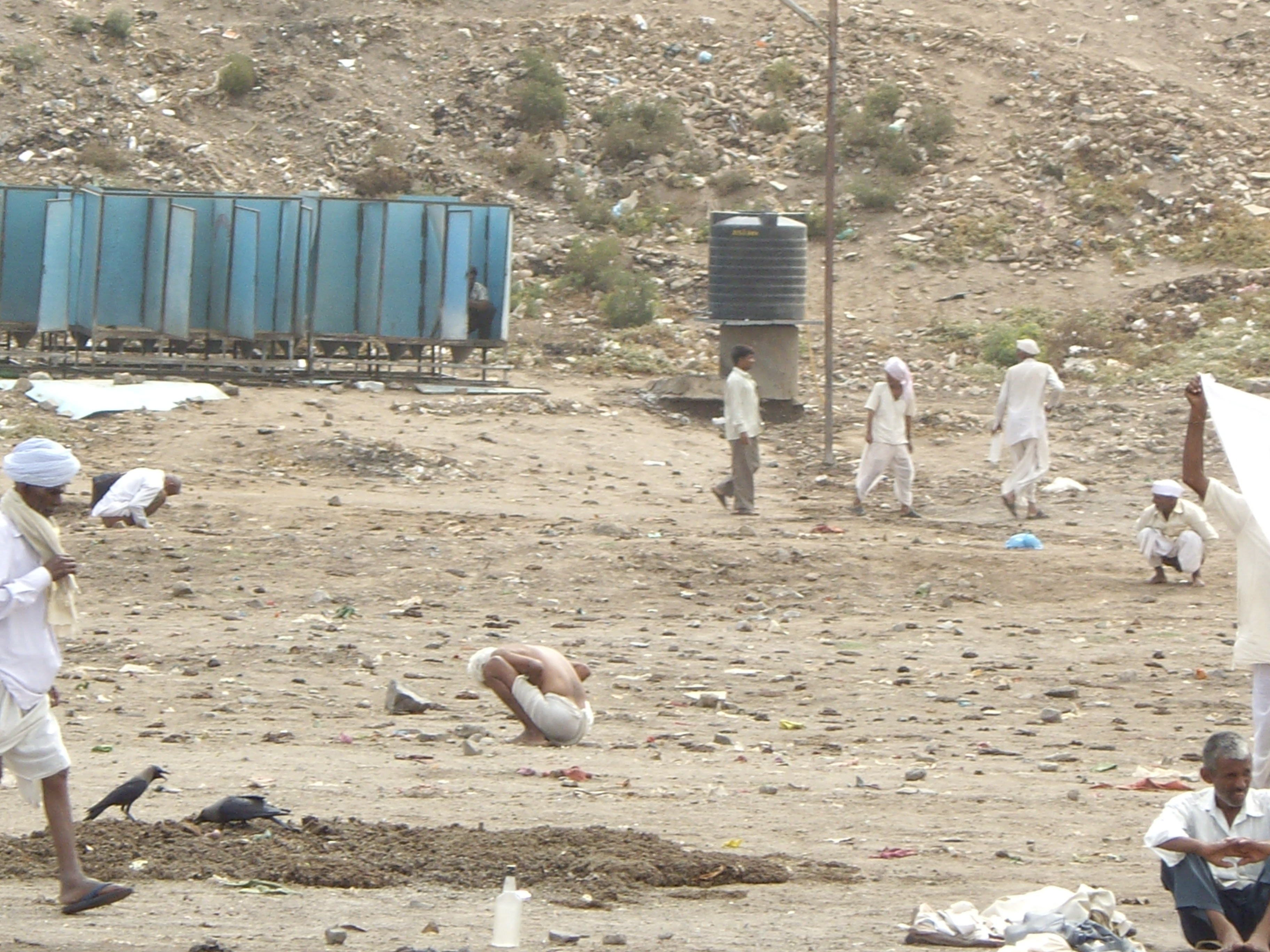 Despite the availability of the toilets, many pilgrims prefer to defecate in the open, just a few metres next to them. Photo by Yaniv Malz in mid 2008.